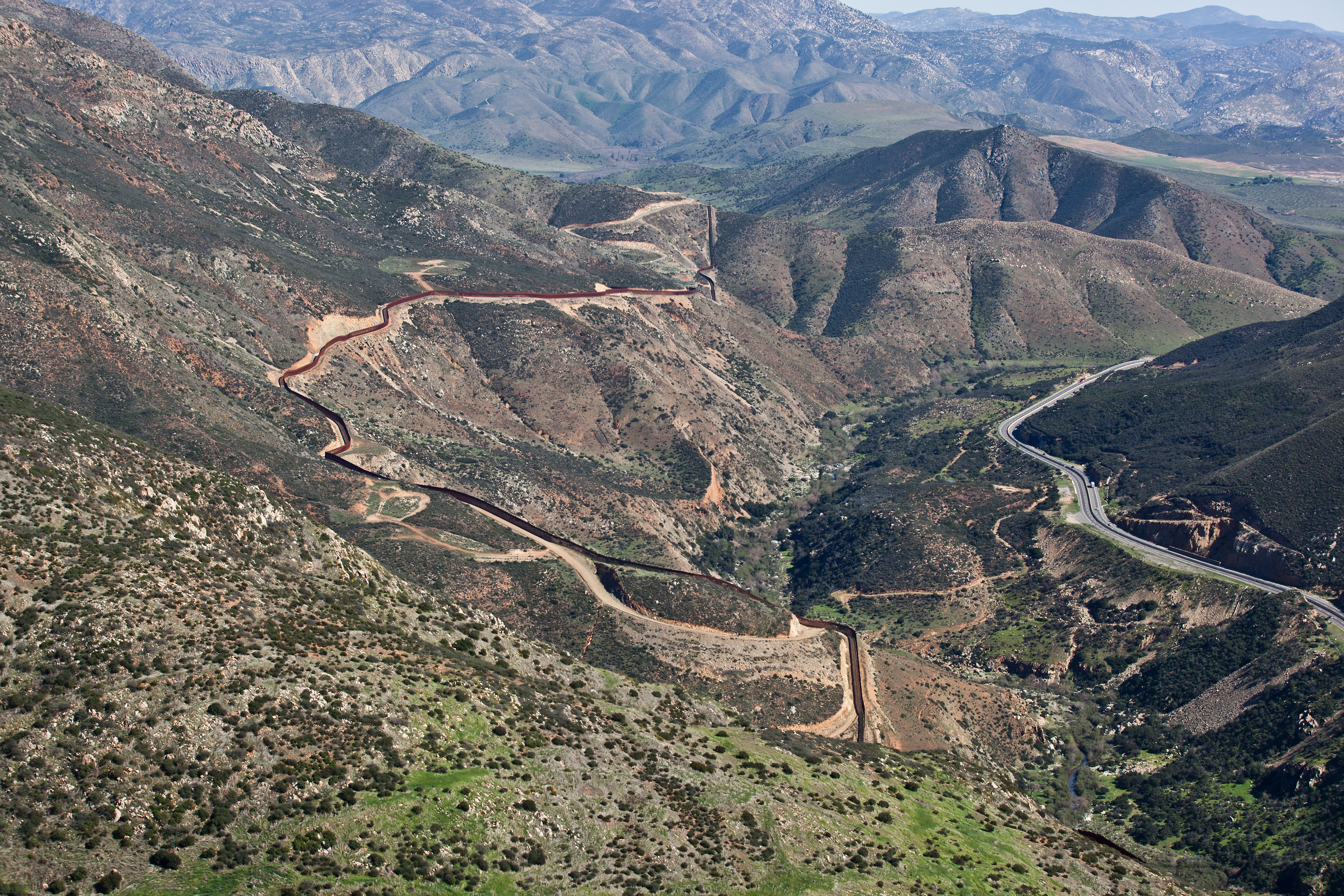 Photos were taken of the border fence that runs alond the border near San Diego. Photographer: Josh Denmark